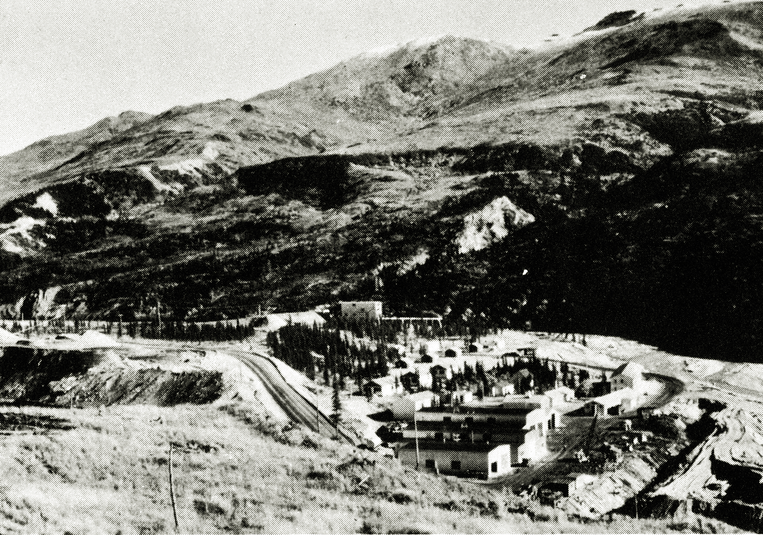 The plant of the Usibelli Mine at Suntrana, Alaska during the mid 1950s. Various buildings and the Alaska Railroad tracks can be seen in the foreground, with mountains of the Alaska Range in the background.